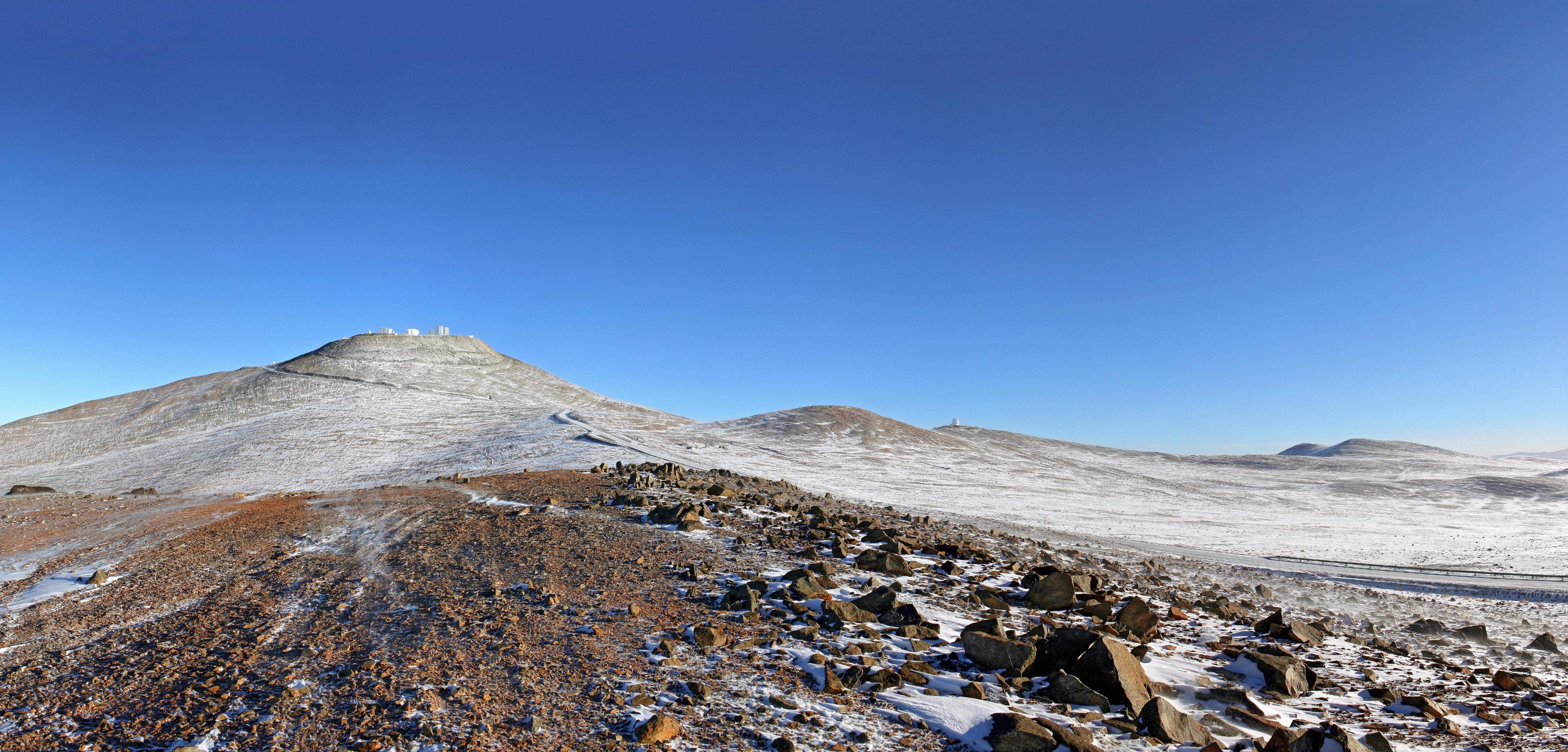 The Atacama Desert is one of the driest places in the world. Several factors contribute to its arid conditions. The magnificent Andes mountain range and the Chilean Coast Range block the clouds from the east and west, respectively. In addition, the cold offshore Humboldt Current in the Pacific Ocean, which creates a coastal inversion layer of cool air, hinders the formation of rain clouds. Moreover, a region of high pressure in the south-eastern Pacific Ocean creates circulating winds, forming an anticyclone, which also helps to keep the climate of the Atacama Desert dry. These arid conditions were a major factor for ESO in placing the Very Large Telescope (VLT) at Paranal, in the Atacama Desert. At the Paranal Observatory, located on the summit of Cerro Paranal, the precipitation levels are usually below ten millimetres per year, with the humidity often dropping below 10%. The observational conditions are excellent, with over 300 clear nights per year. The splendid conditions for astronomical observations in the Atacama Desert are only rarely disturbed by the weather. However, for perhaps a couple of days each year, snow pays a visit to the Atacama Desert. This picture shows a beautiful panoramic view of Cerro Paranal. The VLT is on the peak on the left, and the VISTA survey telescope is on a slightly lower peak, a short distance to the right. The blue sky shows that this is yet another clear sunny day. This time, though, something is different: a thin dusting of snow has transformed the desert landscape, producing an unusual view of rare beauty. This image was taken by ESO Photo Ambassador Stéphane Guisard on 1 August 2011.